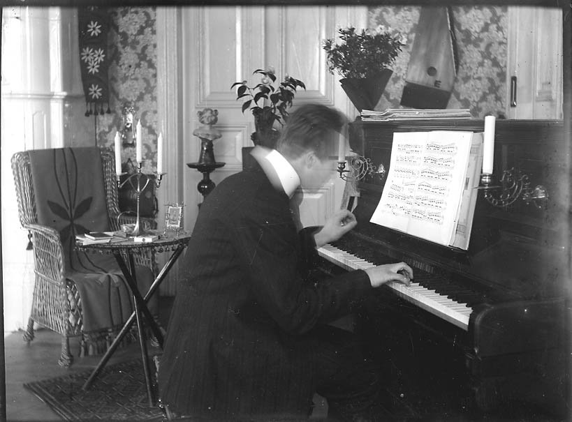 Ilmari Hannikainen, a Finnish composer and pianist, and the Piano